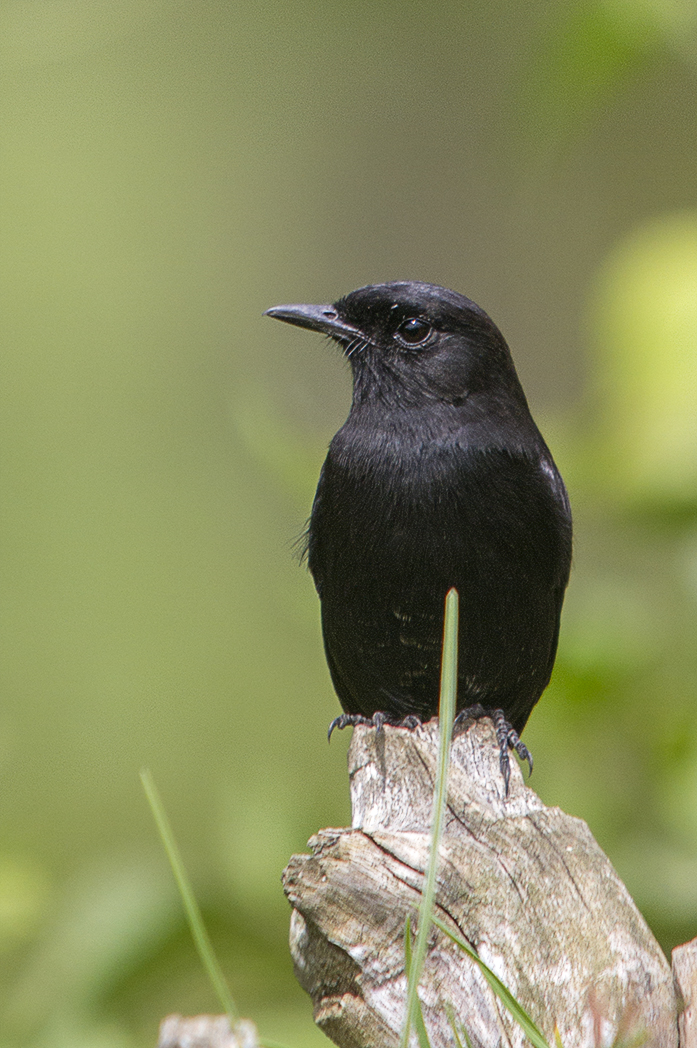 Pied Bush Chat Saxicola caprata, male, from Munnar, Kerala